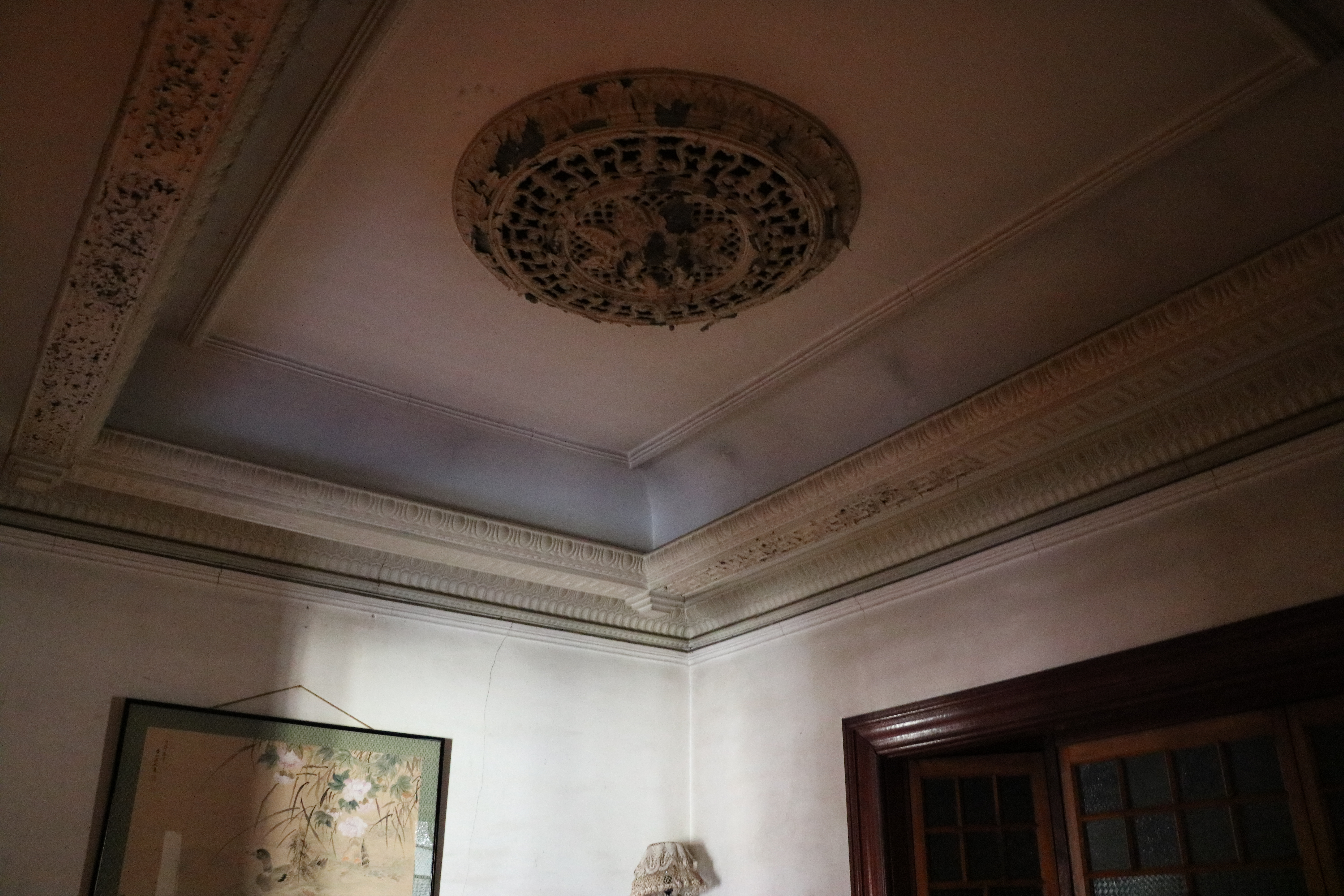 Tsuru City merchant museum.Ceiling of reception room.